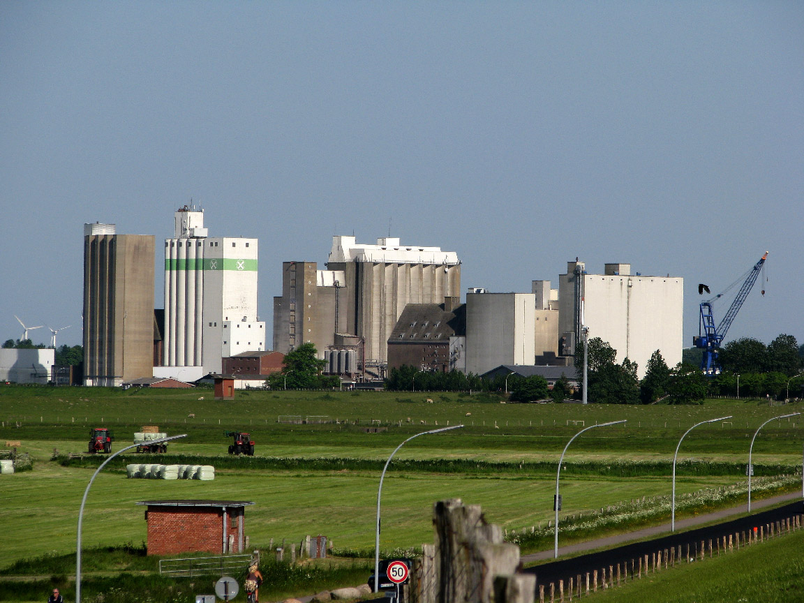 Storage silos owned by two agriculture trade companies at the outer harbour in Husum, Northern Germany